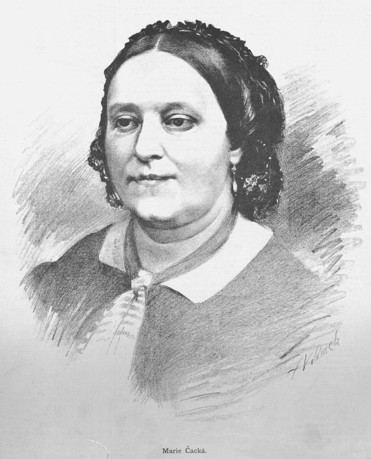 Portrait of Marie Čacká, Czech poet